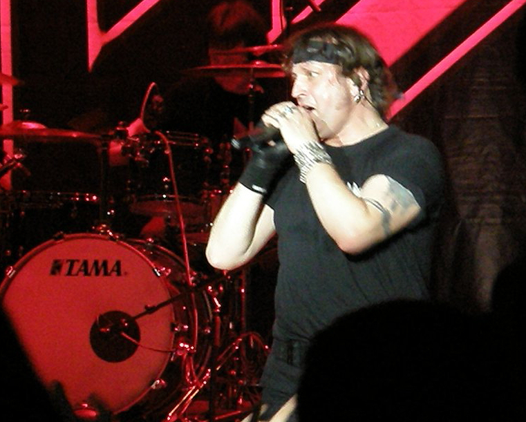 Arthur Berkut, vocalist of heavy metal band Aria, performing at a show in Vladivostok